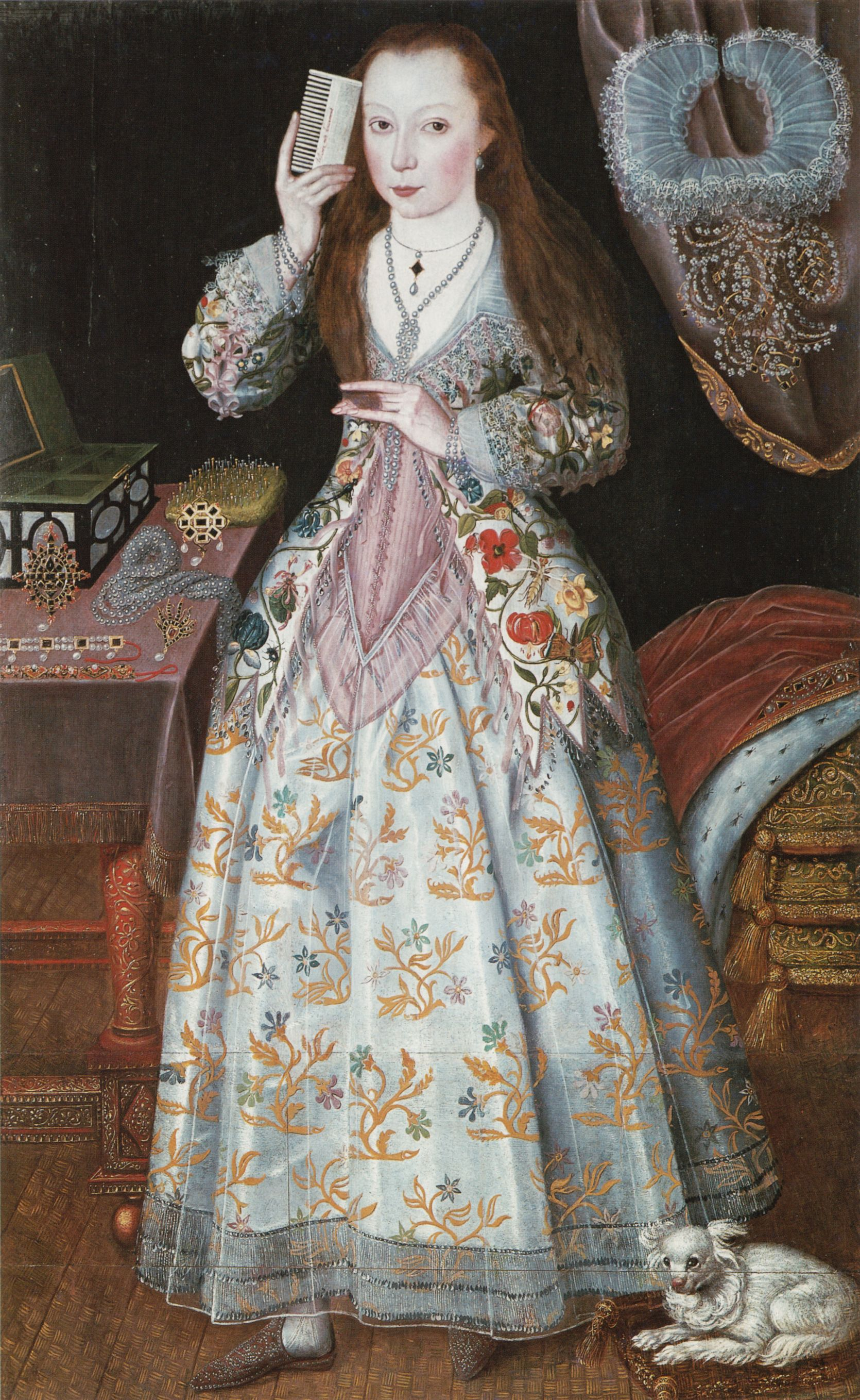 Portrait of Elizabeth Wriothesley née Vernon, Countess of Southampton, in her private boudoir, wearing an embroidered jacket or waistcoat over a rose-colored corset or simple bodice and decorated petticoat, combing her hair with a dog at her feet.